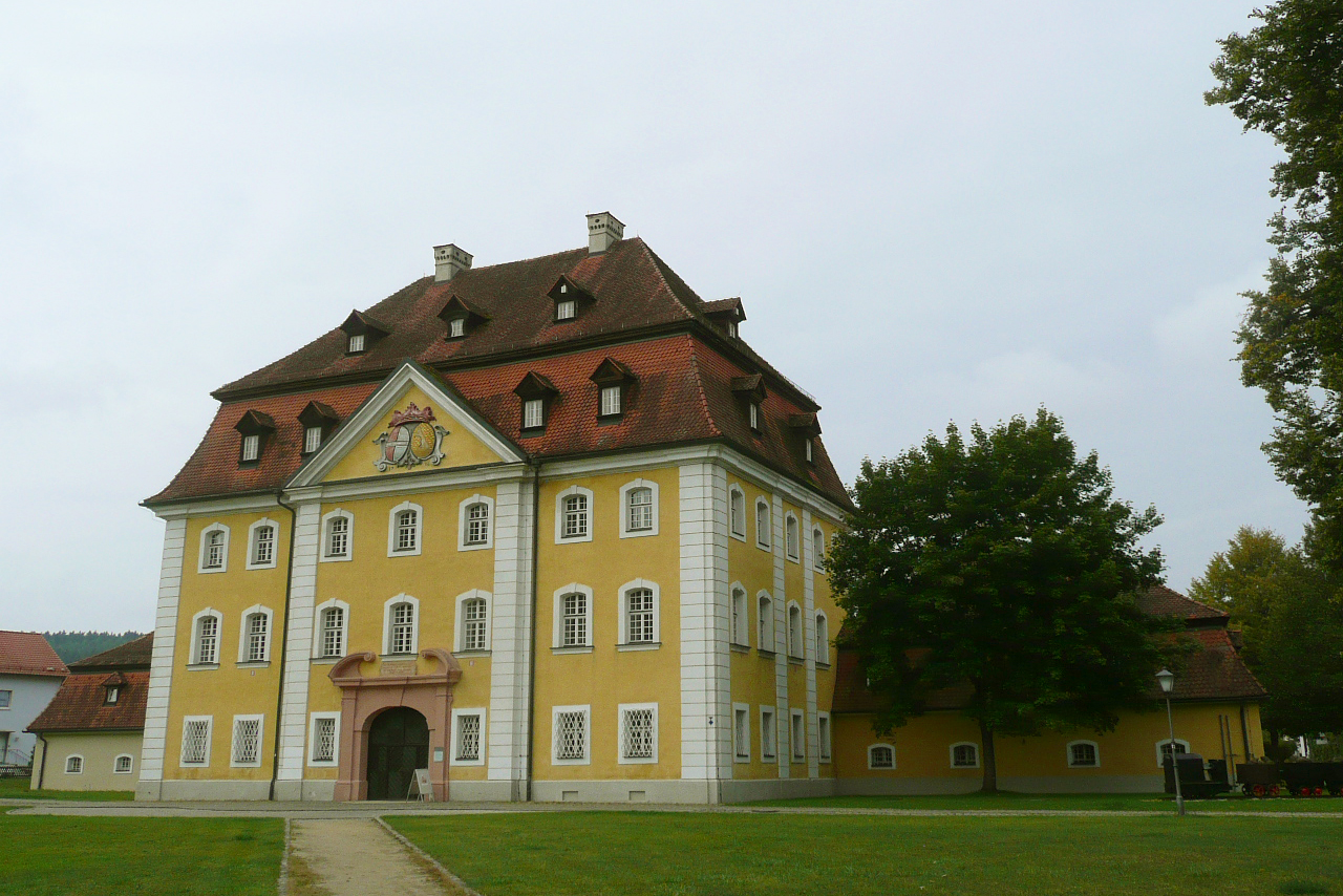 Castle Theuern near Amberg, Upper Palatinat, Bavaria